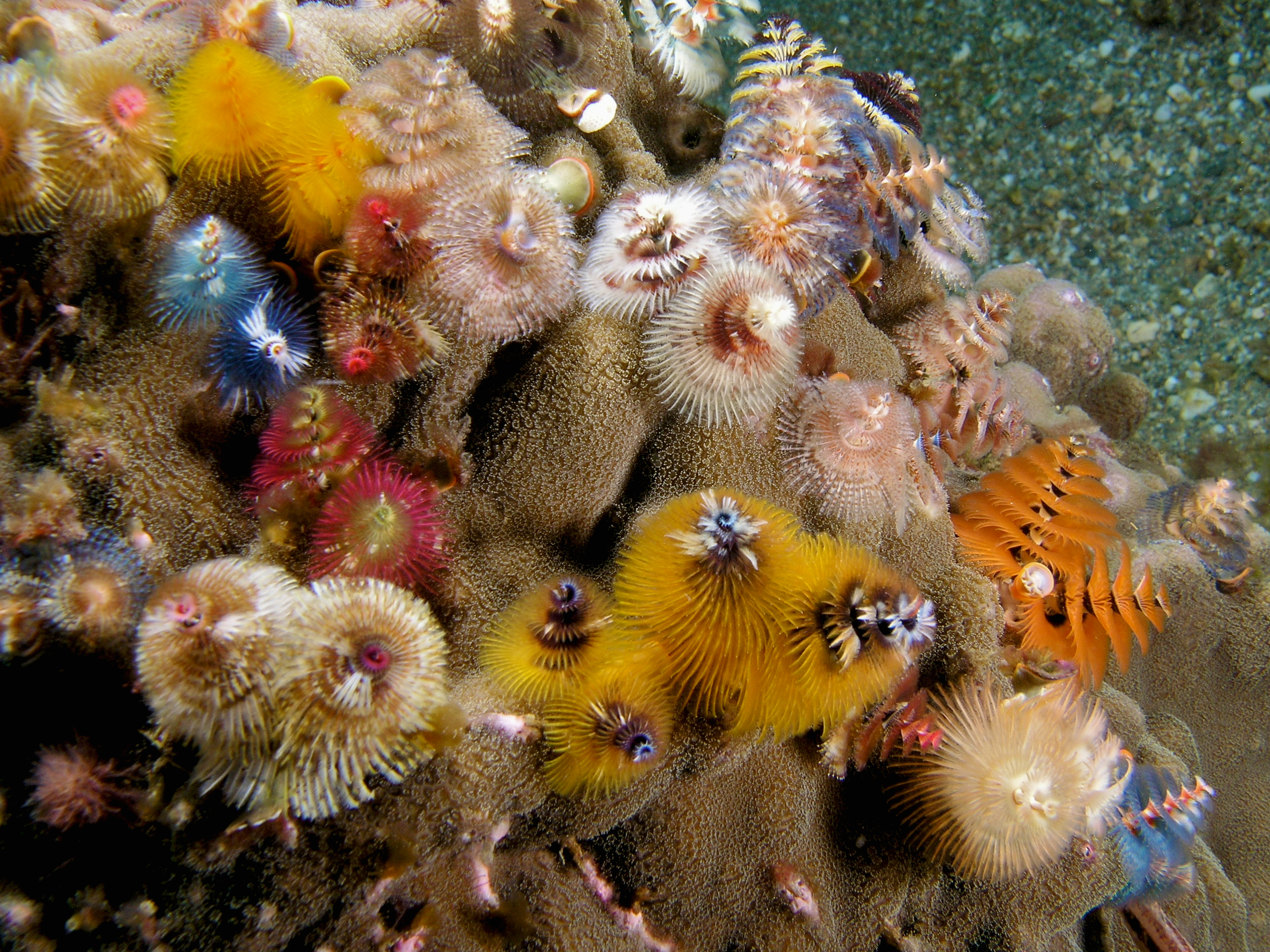 Spirobranchus giganteus (assorted Christmas tree worms)